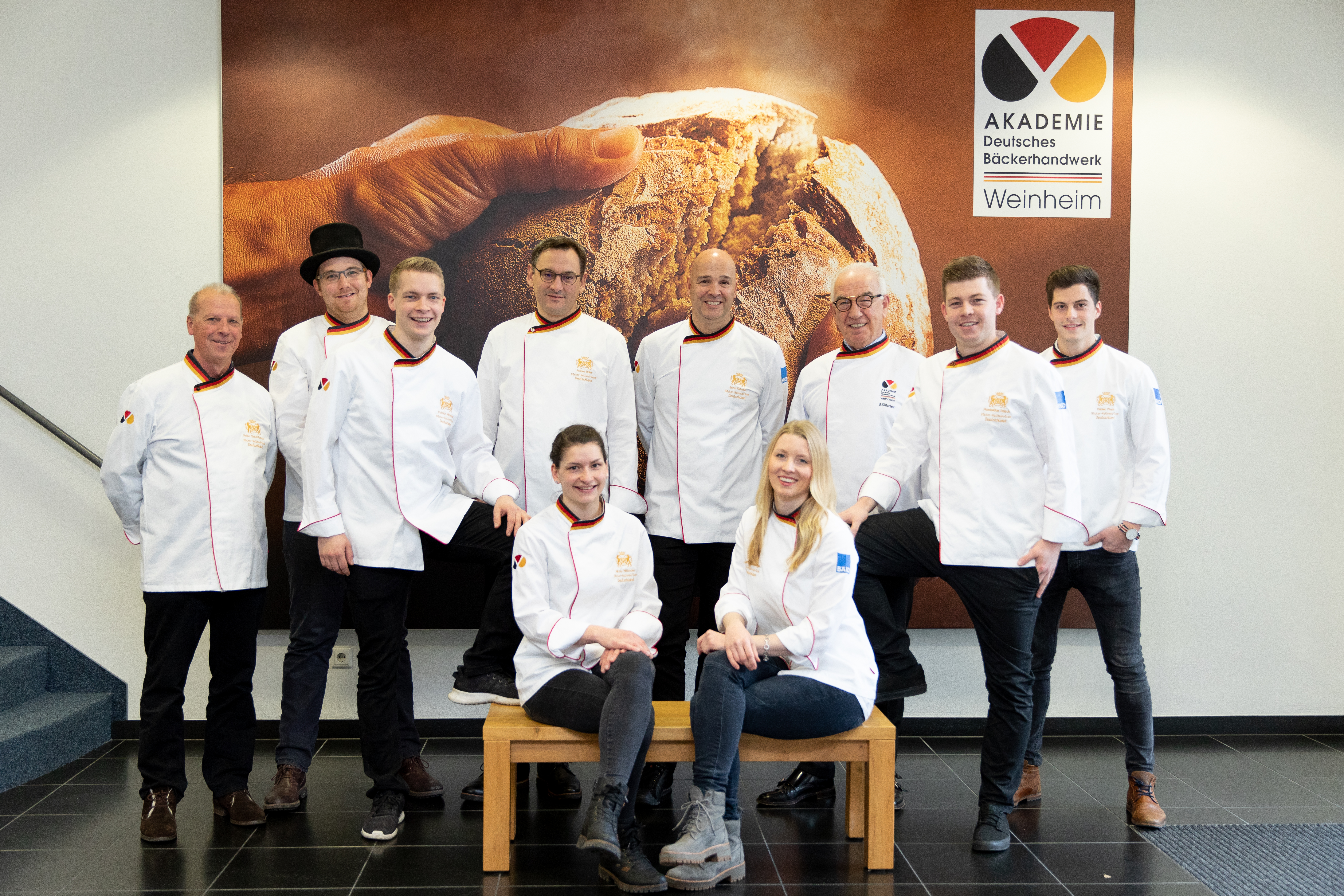 German National Bakers Team